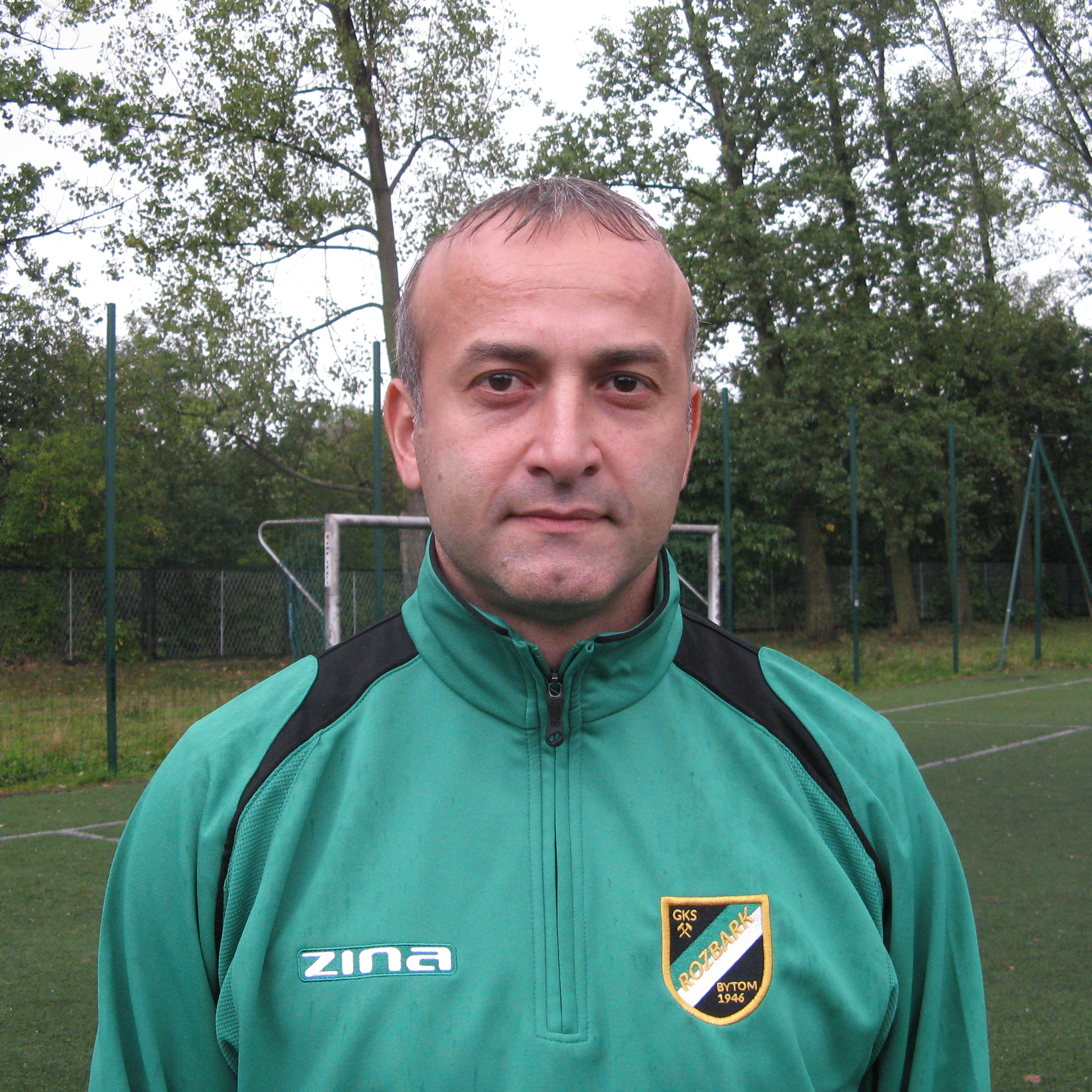 Mamia Jikia (Georgian: მამია ჯიქია, 1975– ) – Georgian footballer, wears GKS Rozbark (Bytom, Poland) colors, court of the 28th primary school in Bytom-Łagiewniki, Poland. [Photo taken with permission of the portrayed.]